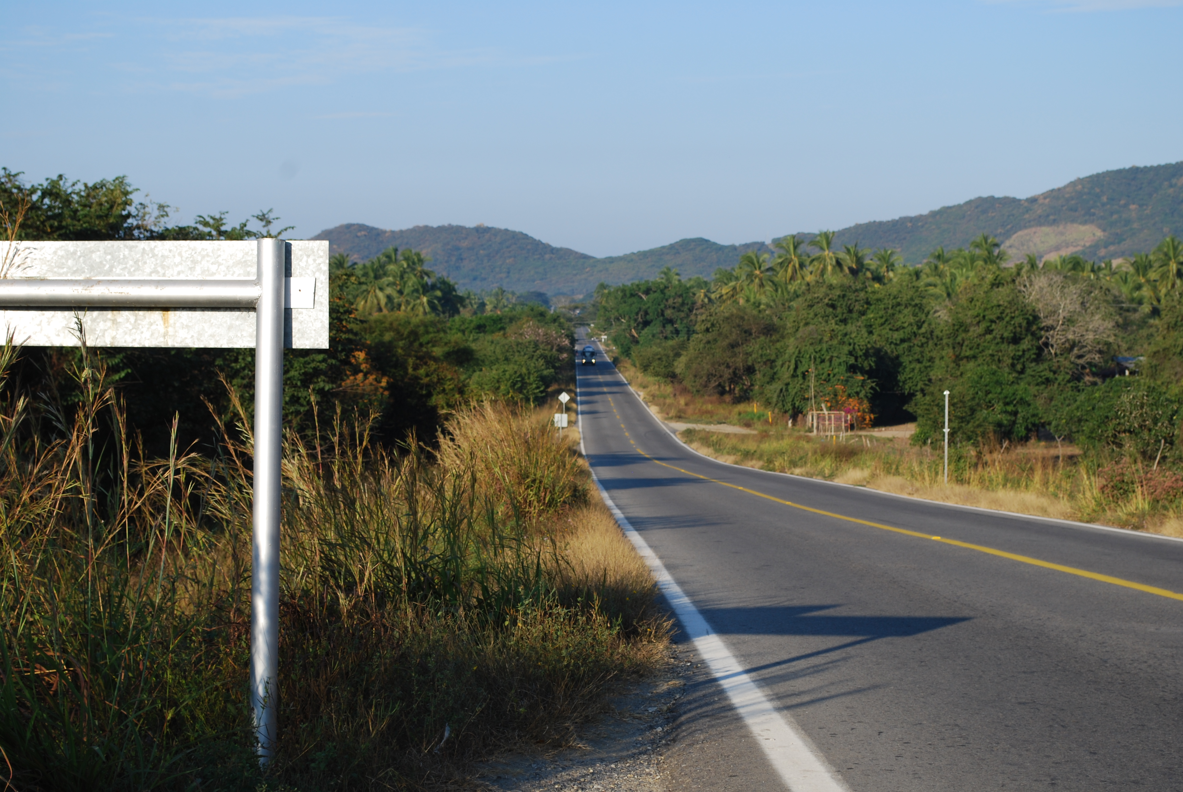 Highway 200 looking west towards Zihuatanejo in Tlalcoyunque, Guerrero, Mexico